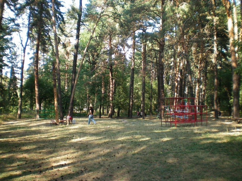 Княжевска борова гора - детска градинка